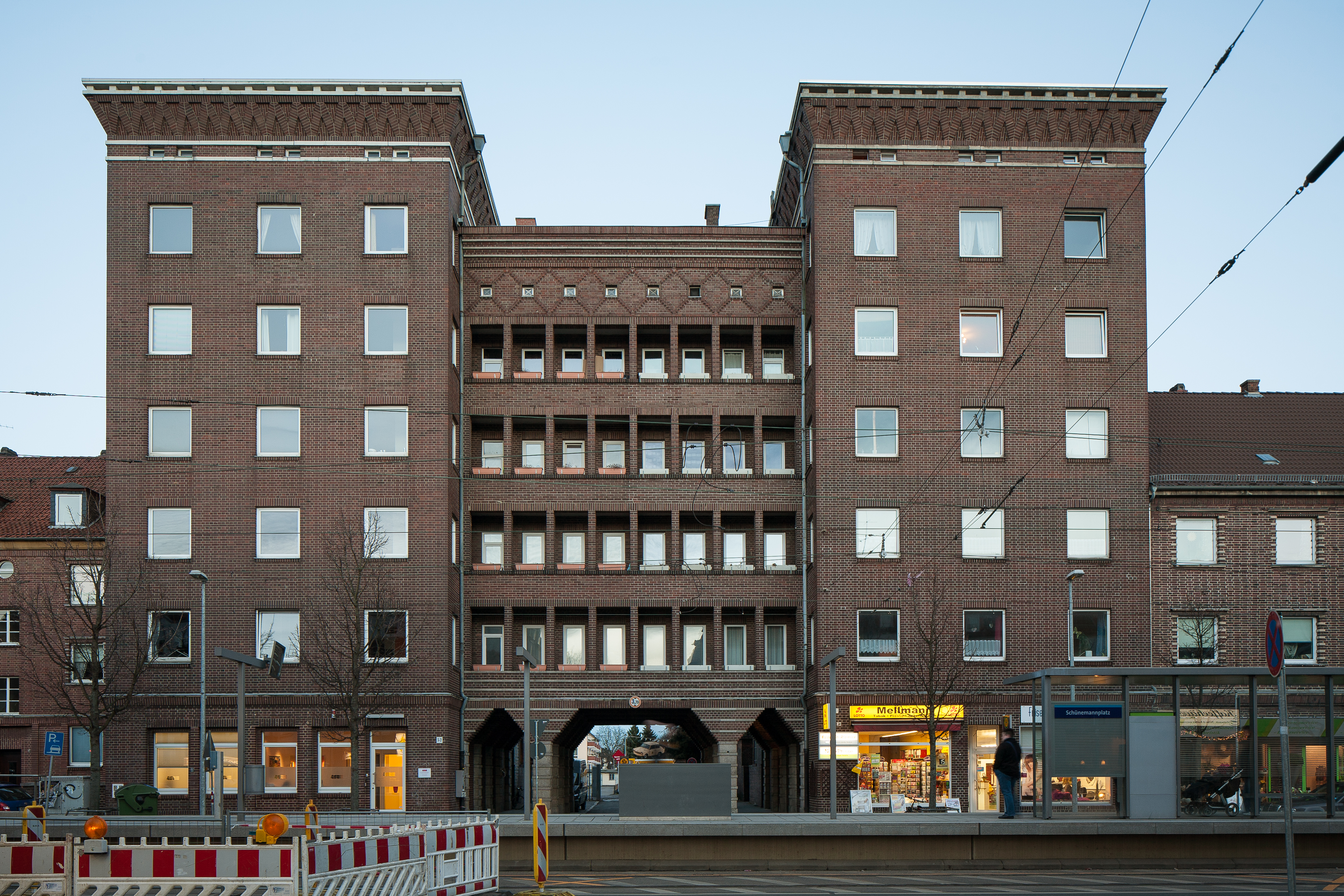 Apartment building (Krone house) located at Ricklinger Stadtweg street in Ricklingen district, Hanover, Germany.